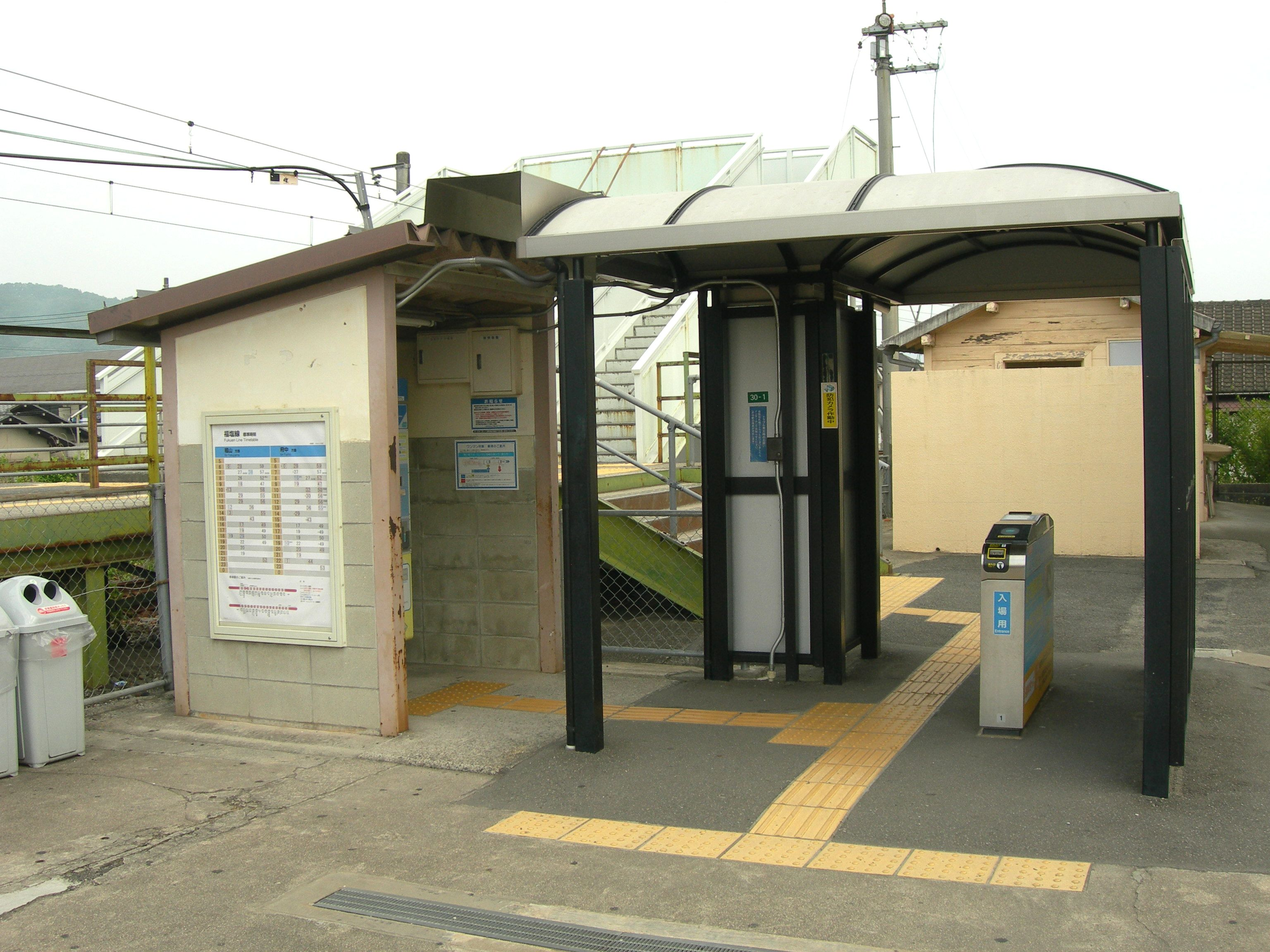 Yokoo Station entrance